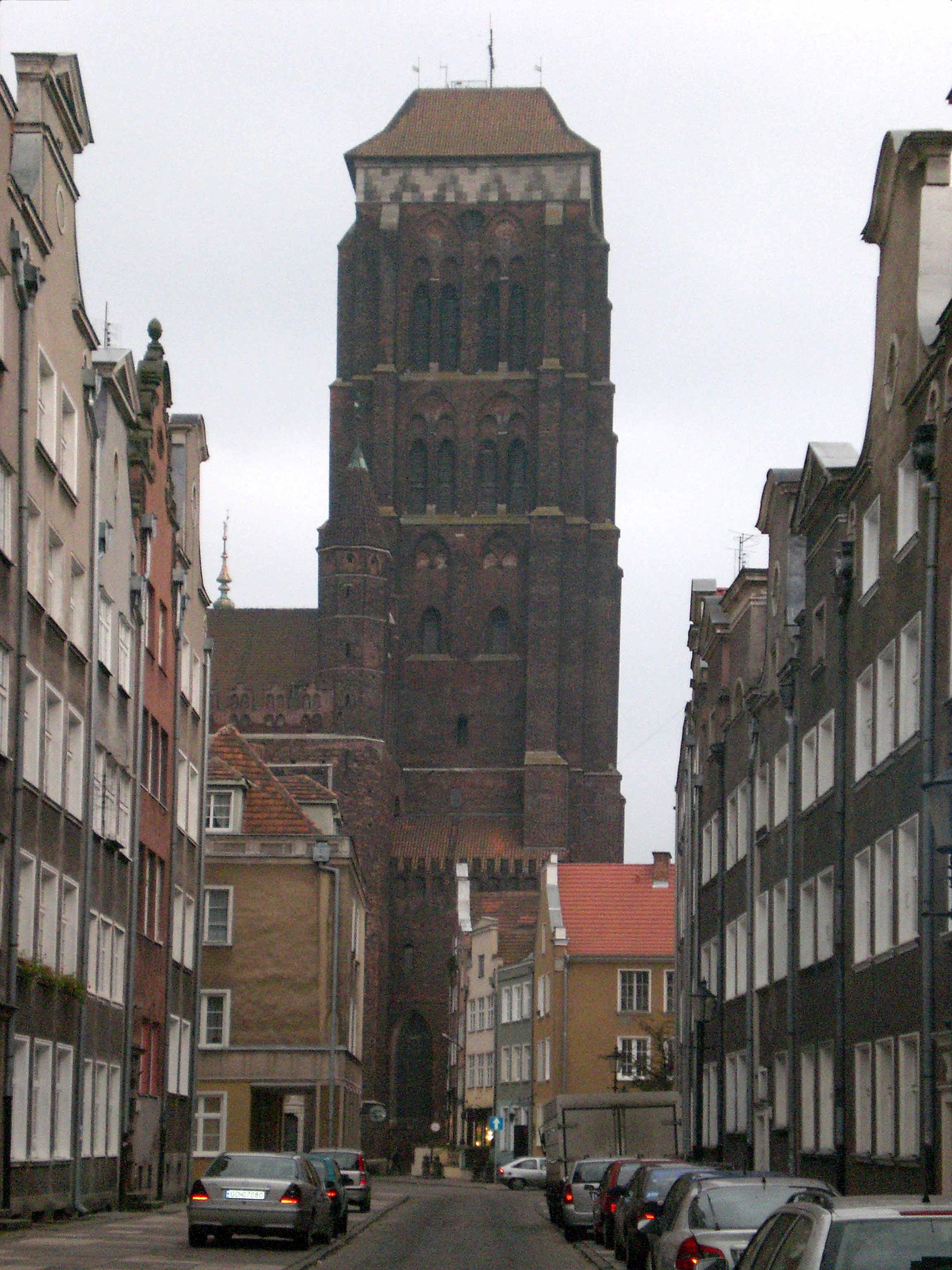 Złotników Street in the Main Town of Gdańsk